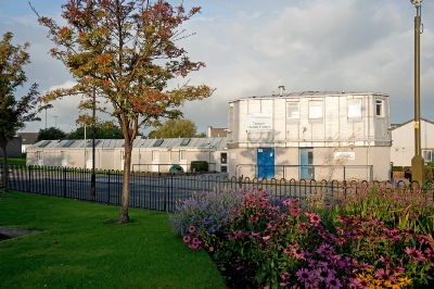 Main Entrance & Gardens of Health Centre